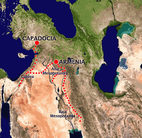 Obsidian trade, in 4th millenium BC